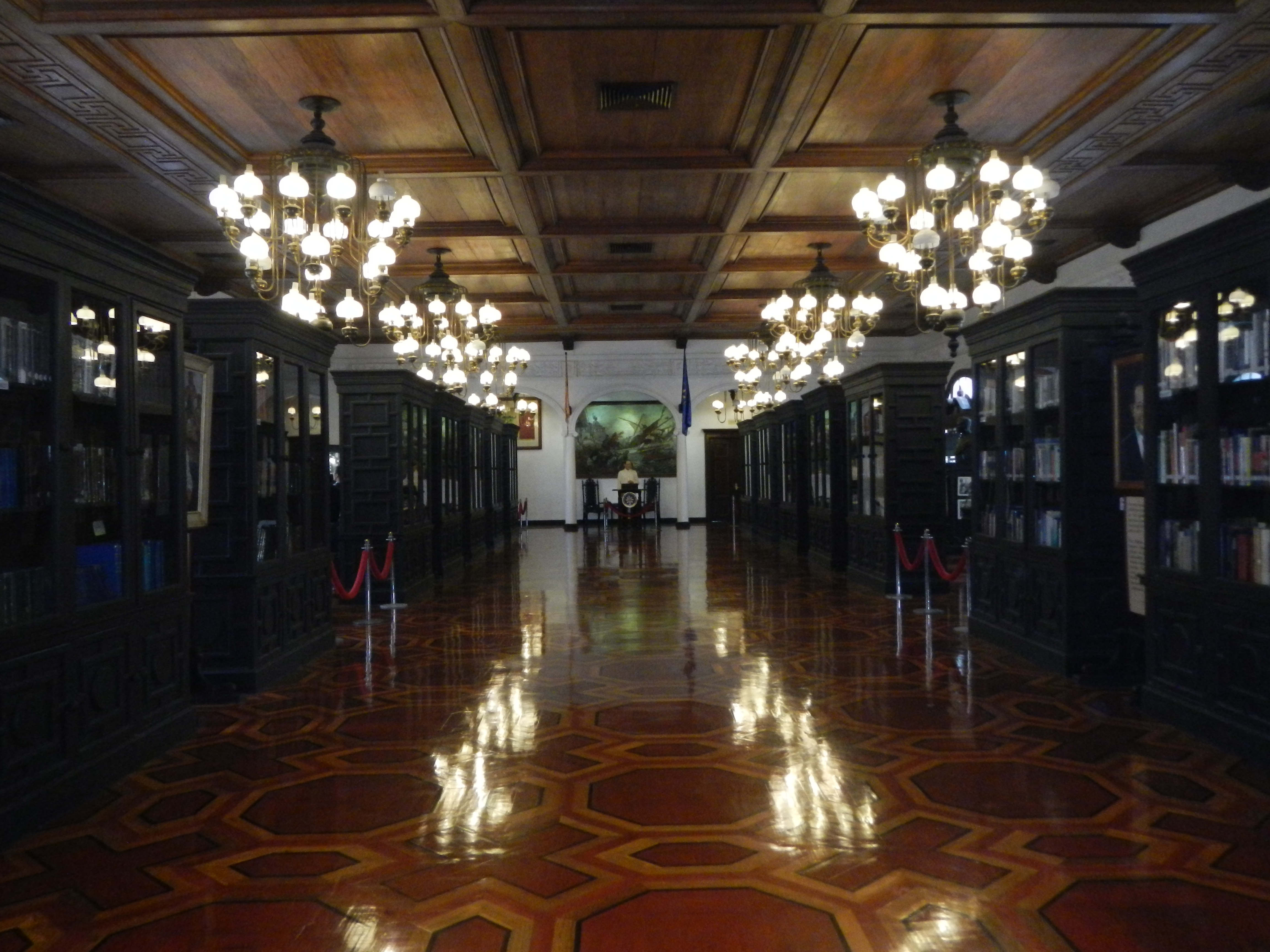 Photos of the Presidential Museum and Library the main gallery of Malacañang Museum, which is the Old Executive Building, now the Kalayaan Hall, Malacañang Palace the official residence of the chief executive since 1863 Jose_P. Laurel Street San Miguel, Manila; the Gallery of Presidents features exhibits and galleries showcasing the heritage of the Presidents composed of objects and memorabilia.